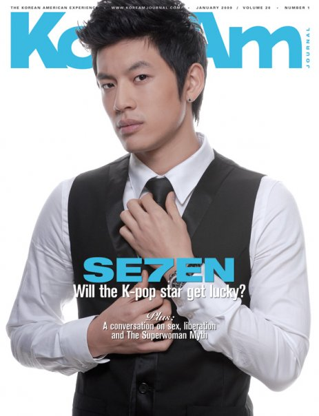 Magazine cover of KoreAm from January 2009; South Korean pop singer Se7en